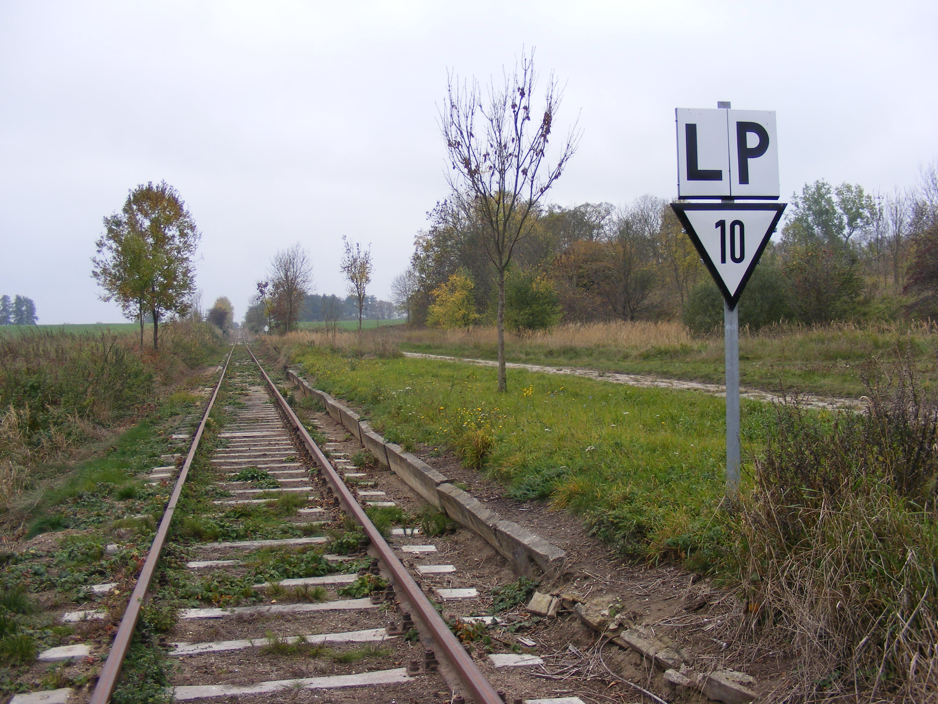 Railway Schönermark–Damme (former Angermünder Kreisbahn) Station Lützlow